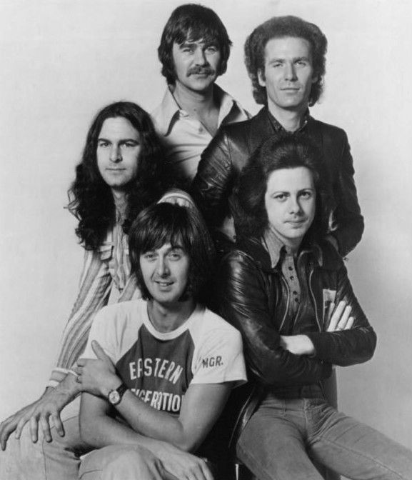 Publicity photo for the music group The Spencer Davis Group.